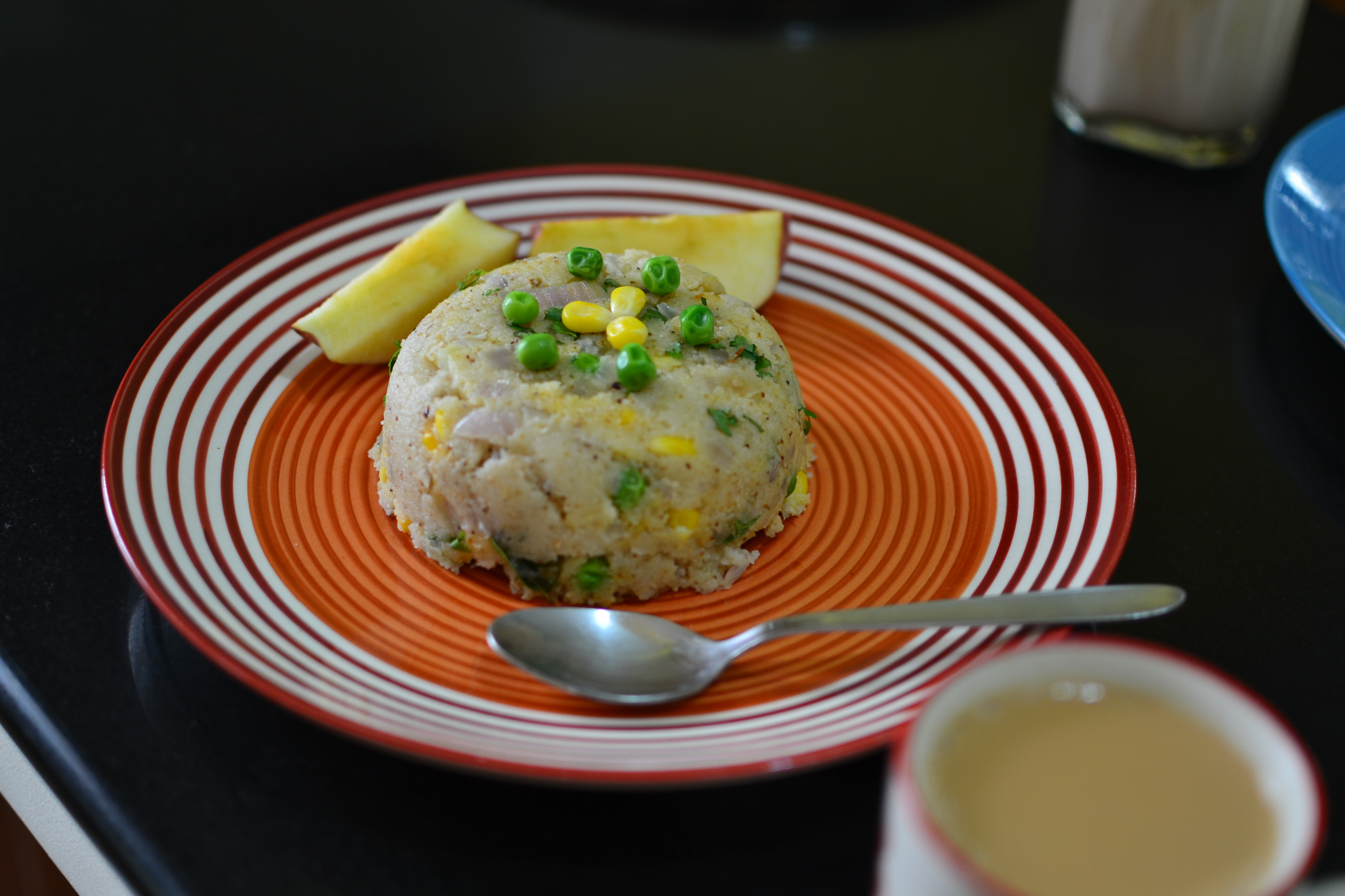 Upma, A primarily south Indian delicacy, prepared with suji and garnished with nuts and vegetables, served with hot tea coffee or with juice.